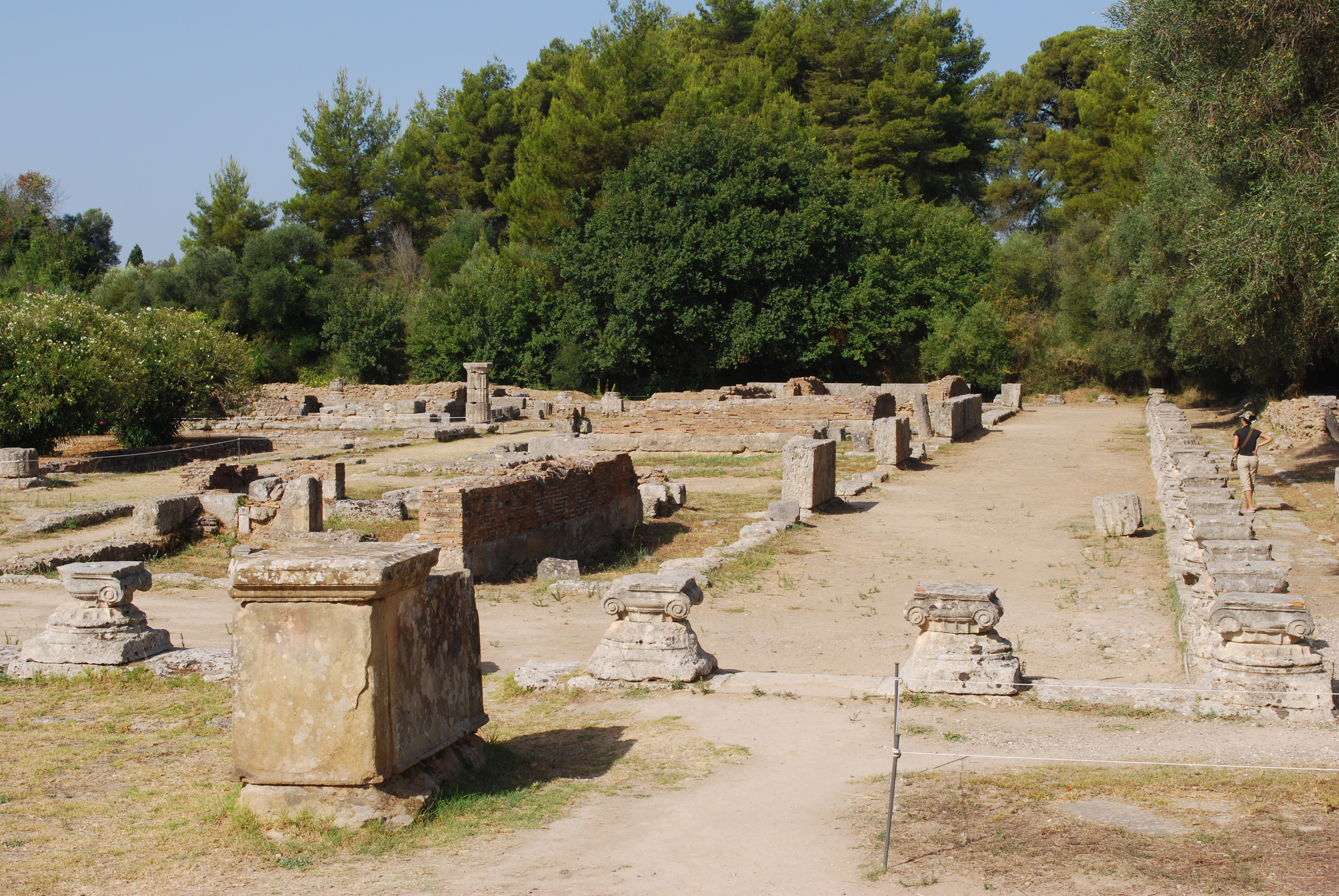 Olympia : Leonidaion.